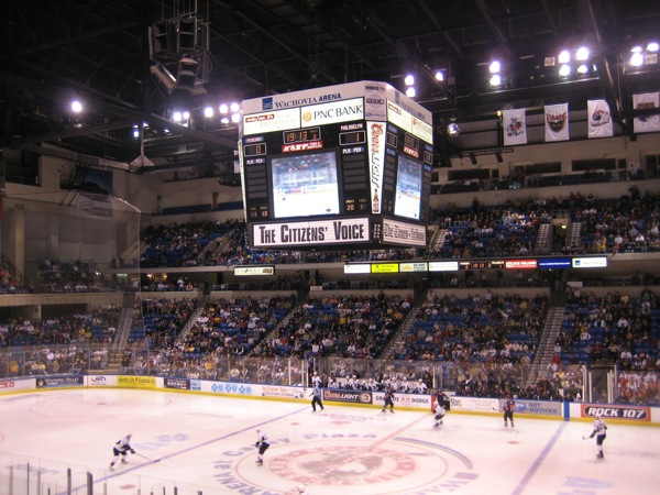 Penguins Hockey at the Mohegan Sun Arena at Casey Plaza (ex-Wachovia Arena).